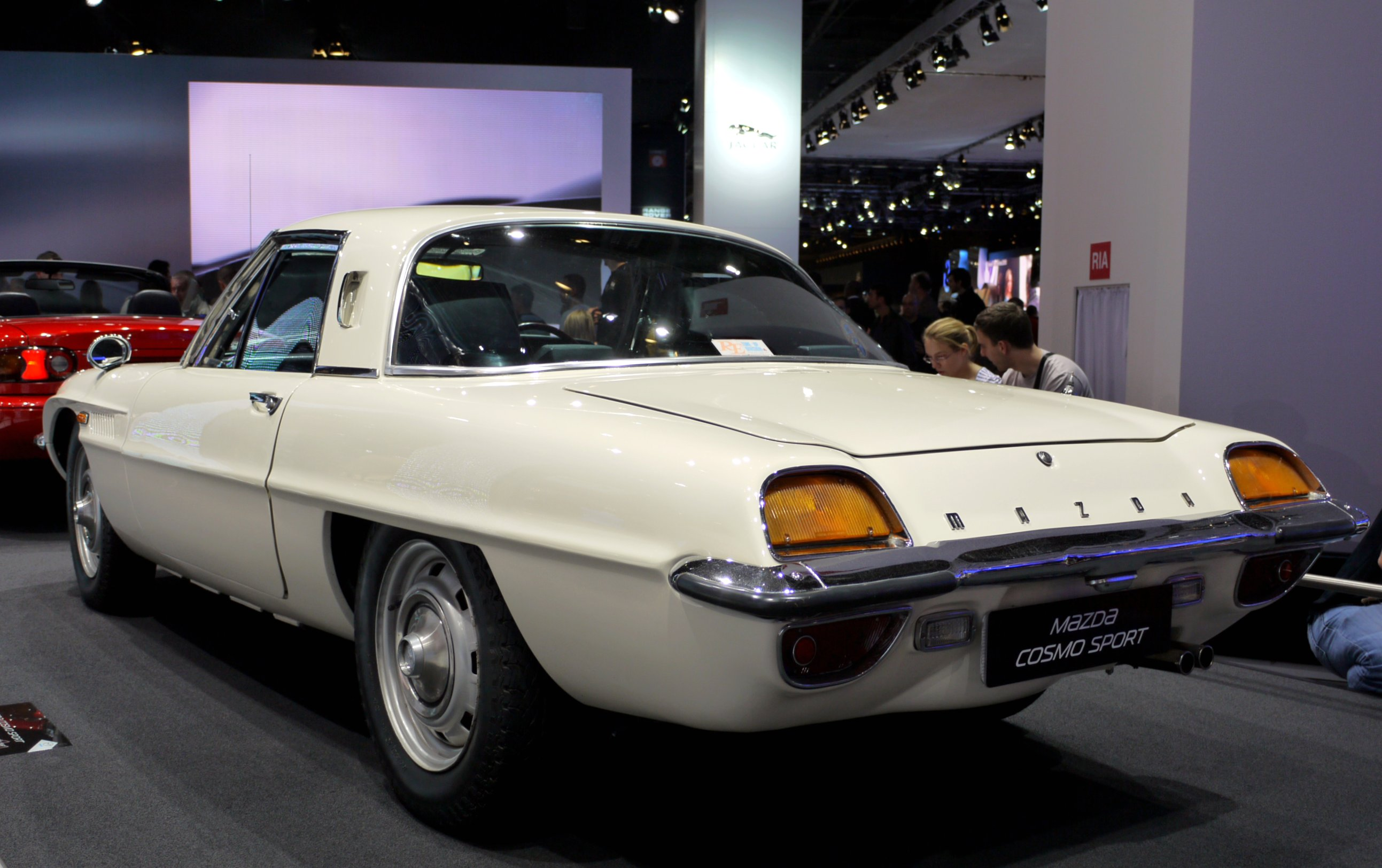 Mazda Cosmo Sport 110S. First 2-rotor rotary engine powered series car, produced between May 1967 and 1972. Cosmos were built by hand at a rate of only about one per day.